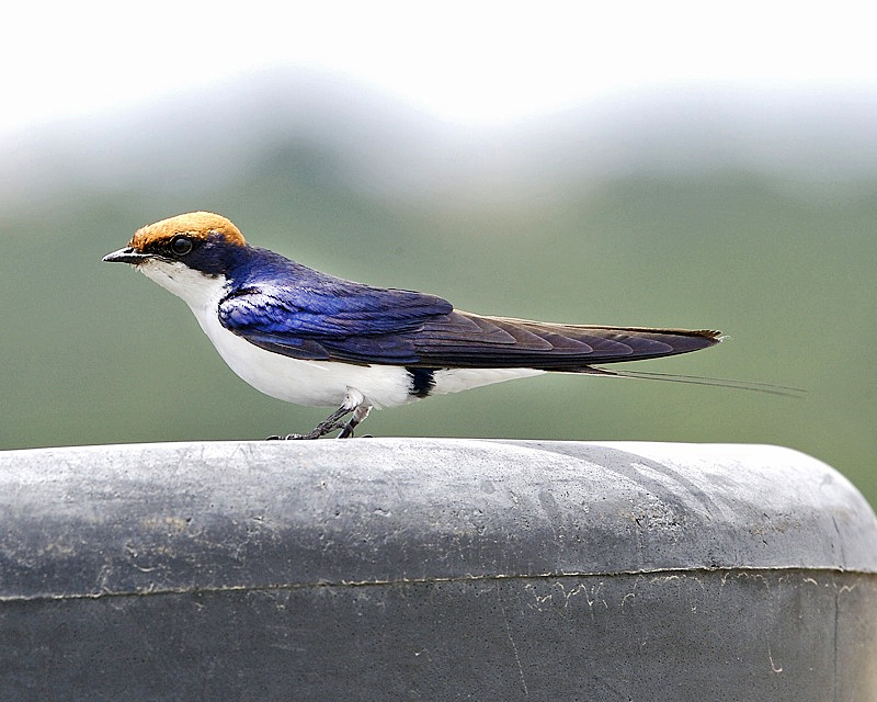 Adult Wire-tailed swallow Masai Mara, Kenya 690V0573